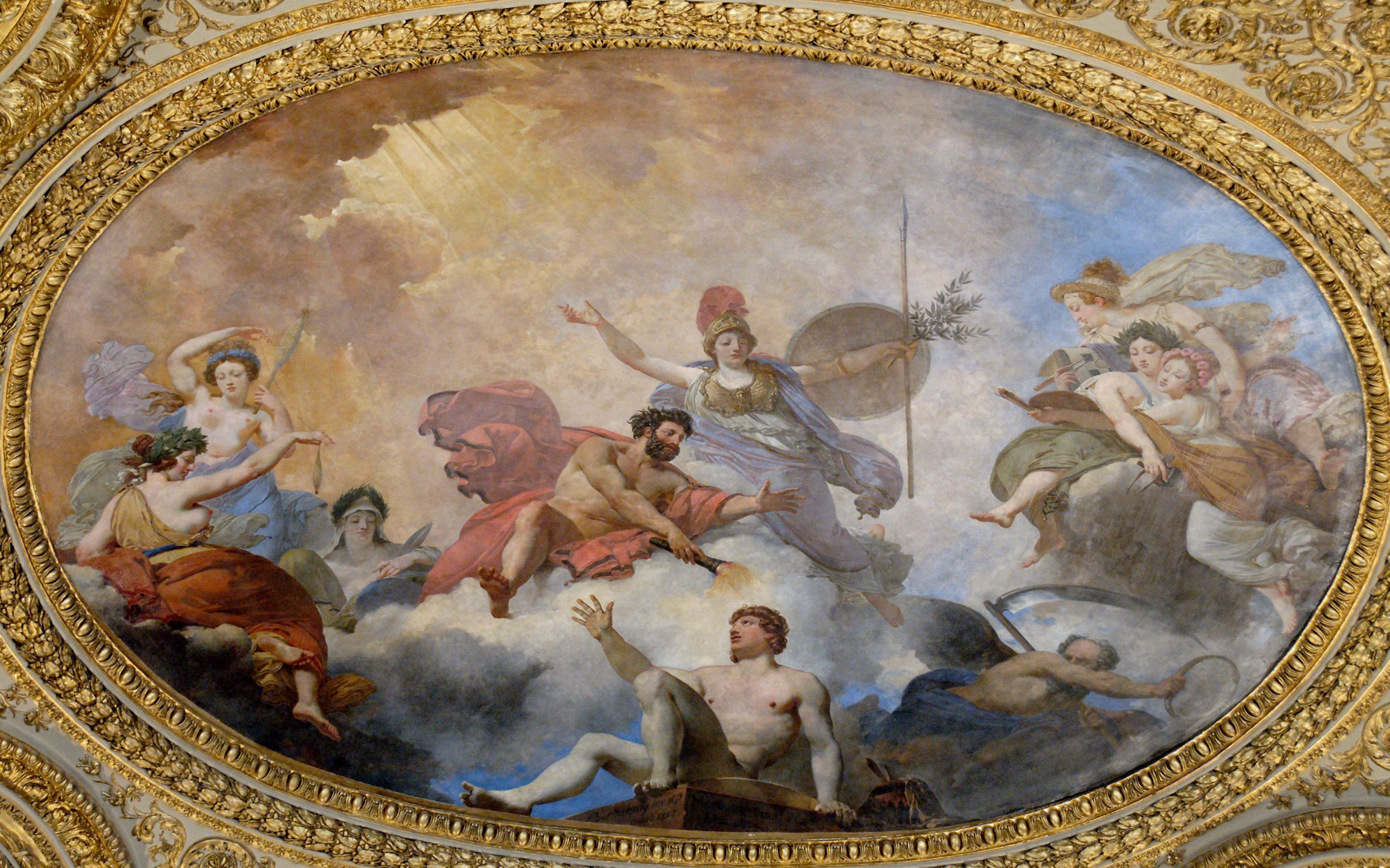 Prometheus creating man in the presence of Athena, painted in 1802 by Jean-Simon Berthélemy, painted again by Jean-Baptiste Mauzaisse in 1826. Bears the signature: “Berthelemy inv. Et p. anno 1802. Mauzaisse Denuo Pinxit anno 1826”.